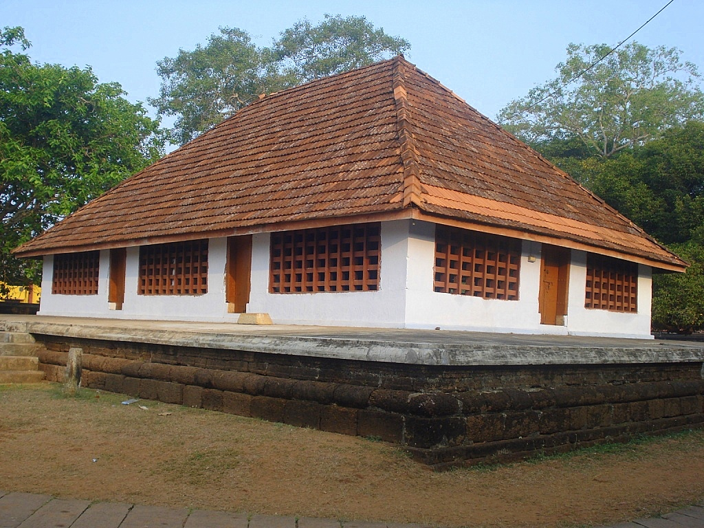 Koothambalam ,Peruvanam temple,Thrissur,Kerala